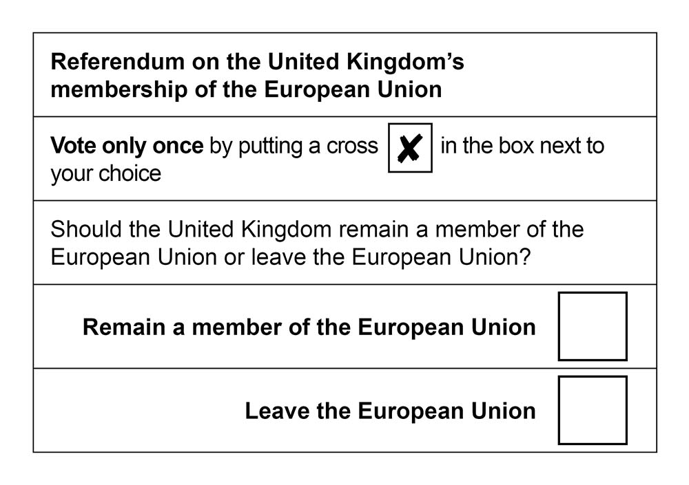 A sample of the actual ballot paper in the 2016 EU Referendum